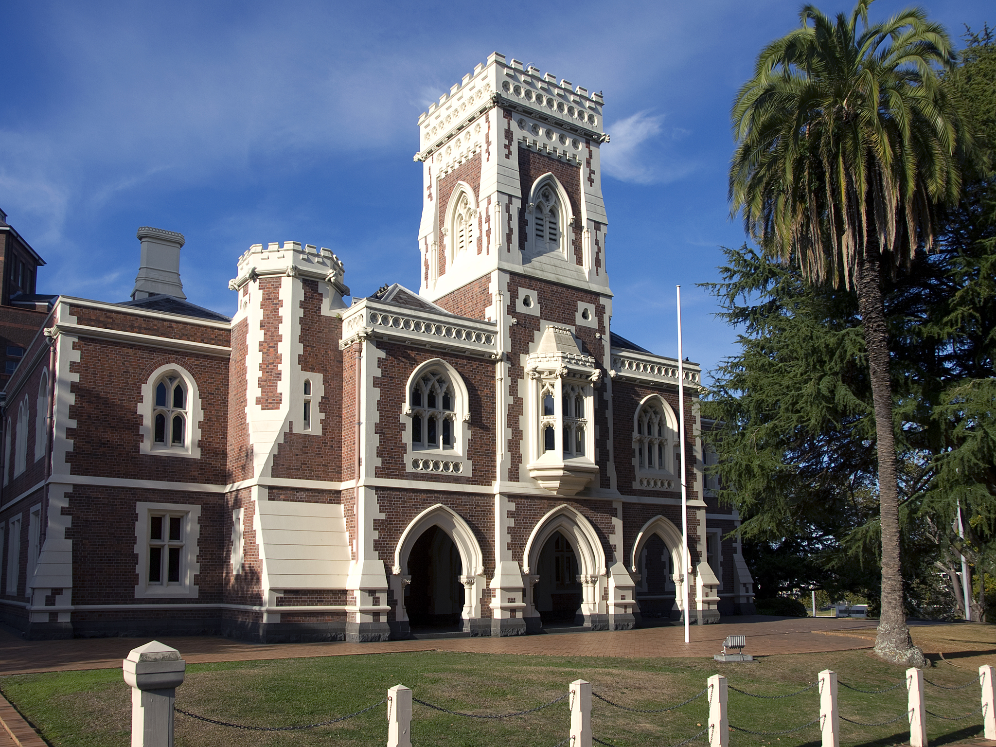 High Court Building, 22-24 Waterloo Quadrant, Auckland, New Zealand. It was build from the British-born architect Edward Rumsey in 1865-1868 for the Supreme Court in New Zealand.